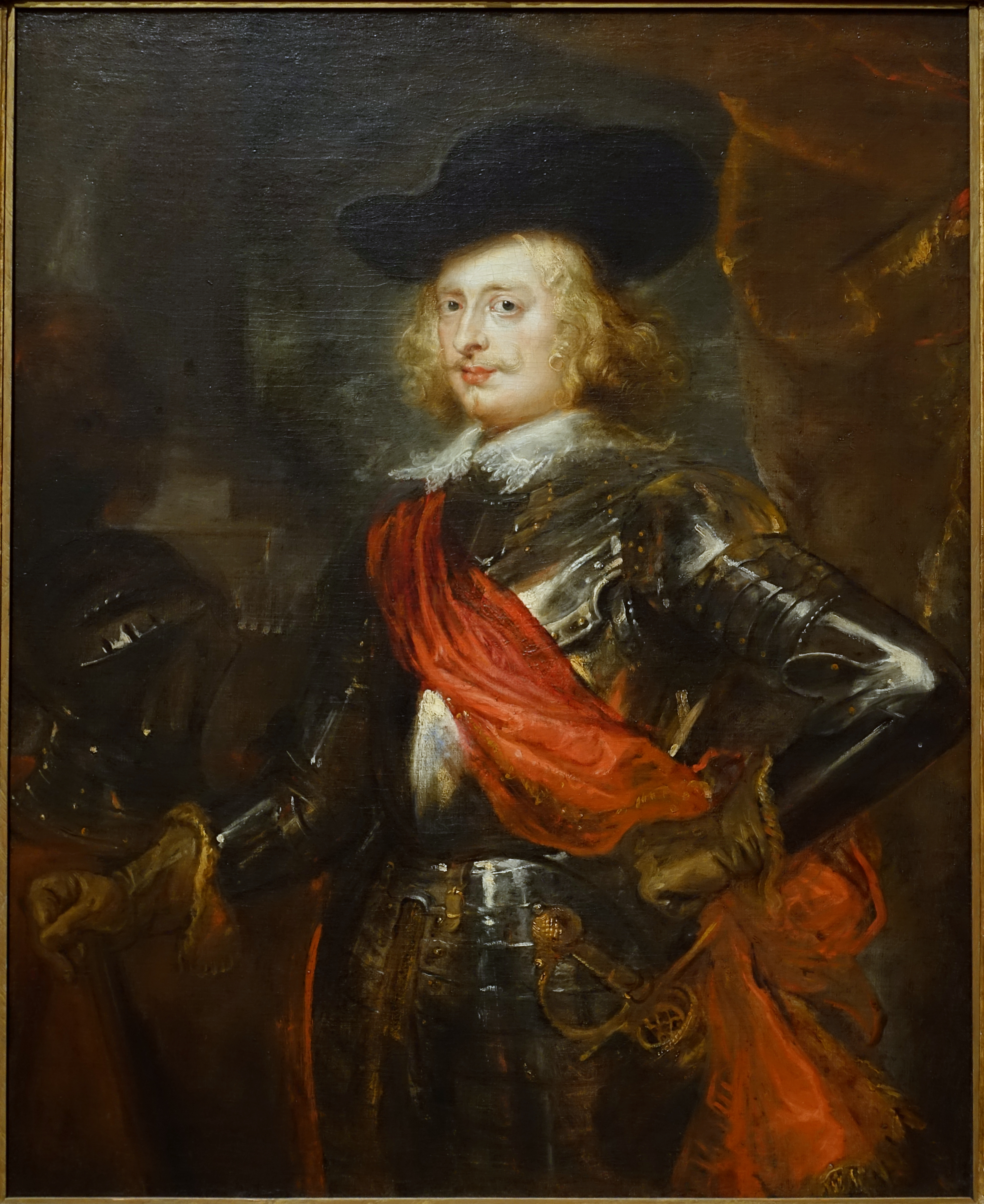 Exhibit in the John and Mable Ringling Museum of Art - Sarasota, Florida, USA.